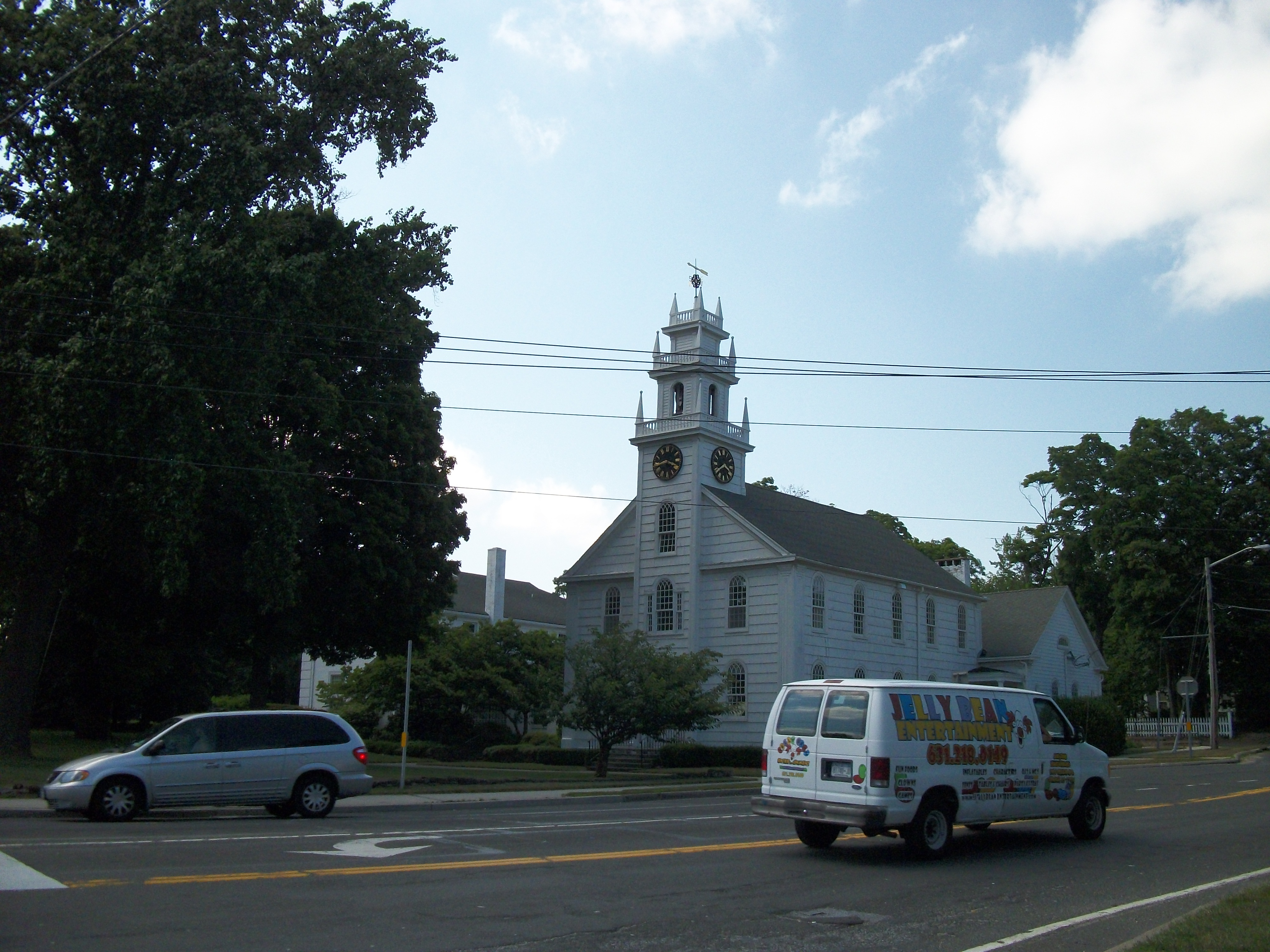 First Presbyterian Church (Smithtown, New York) as seen from the northeast corner of New York State Route 25 and New York State Route 25A in the Village of The Branch, New York.